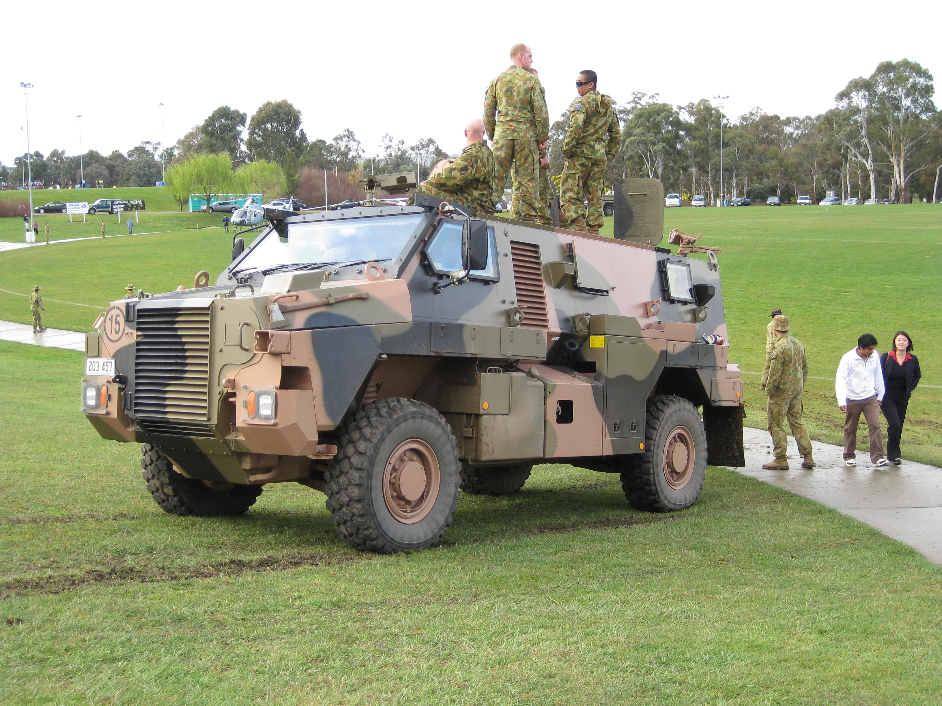 An Australian Army Bushmaster Protected Mobility Vehicle at the 2009 Australian Defence Force Academy open day.